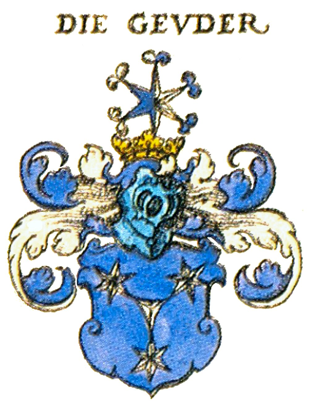 Blazon: Azure an inverted triangle Argent between three six-pointed mullets of the second touching at the vertices.